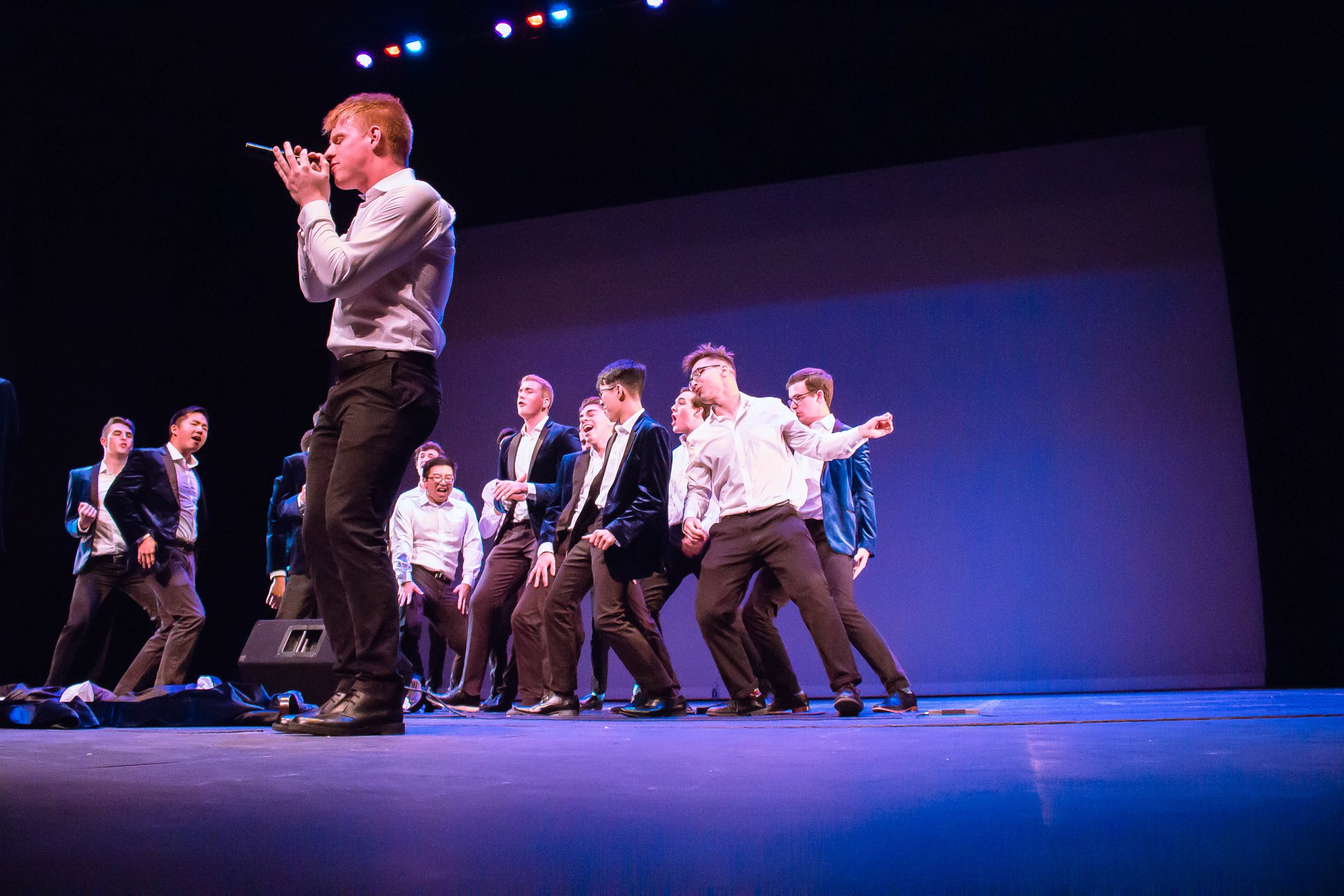 Pitchforks Valentine's Day Show Dance Image